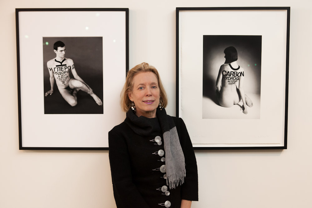 Photograph of Dove Bradshaw, artist, with some of her works at the opening for the 2011 Elemental Matters exhibit at the Chemical Heritage Foundation, Philadelphia, PA, USA, 4 February 2011.